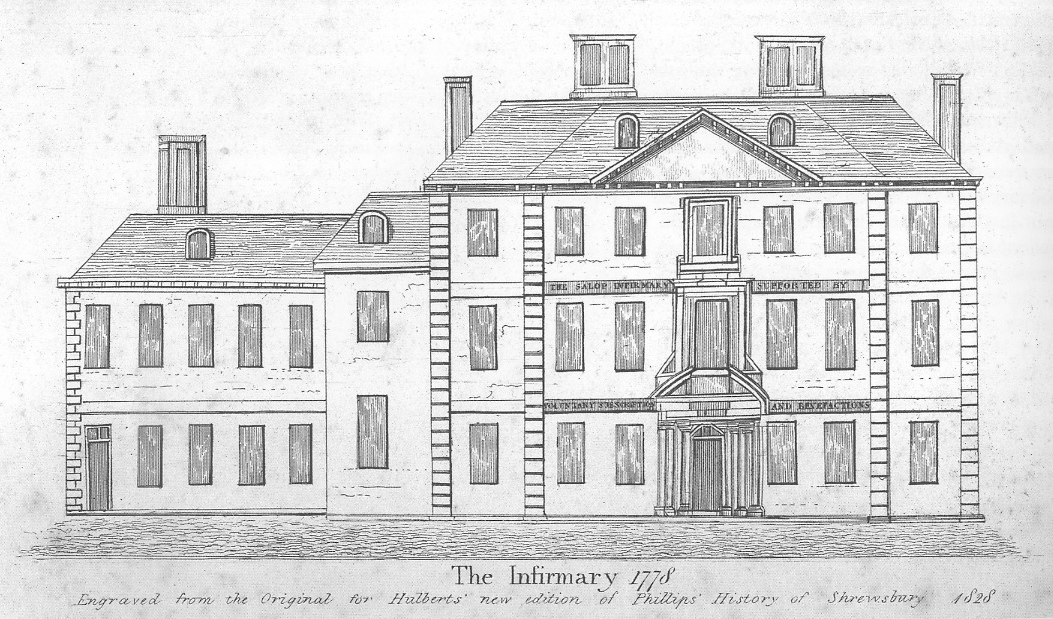 Royal Shropshire Infirmary. Completed by William Baker of Audlem with Thomas Farnolls Pritchard, 1747.